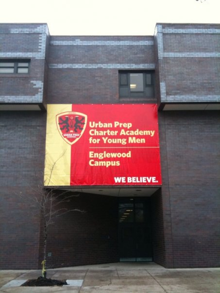 Photo of the entrance at Urban Prep Charter Academy for Young Men - Englewood Campus.